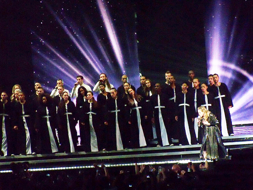 Madonna's MDNA Tour at Staples Center